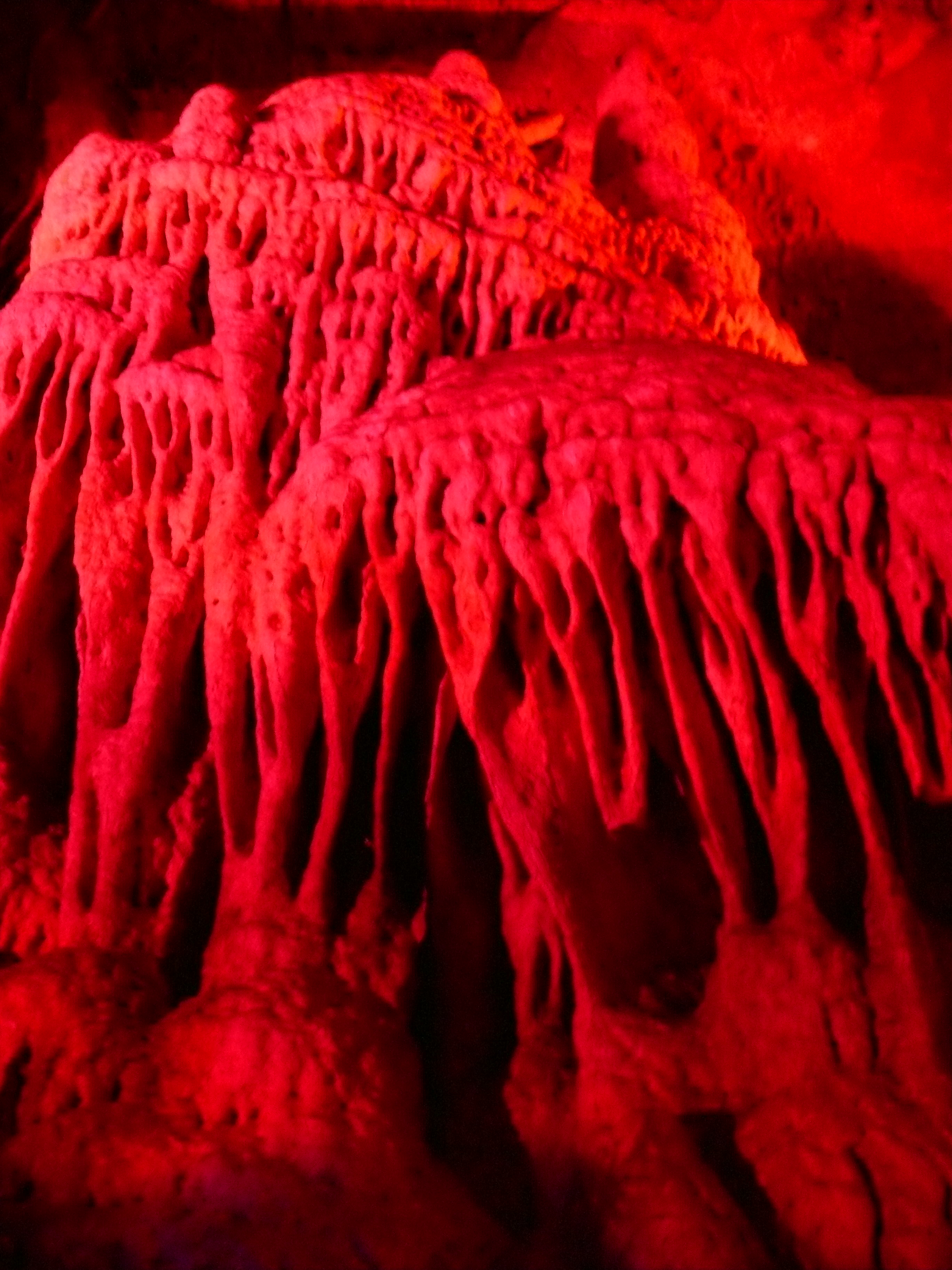 Sataplia karst caves